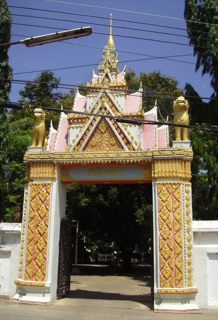 Yasothon Wat Singh Tha Gate